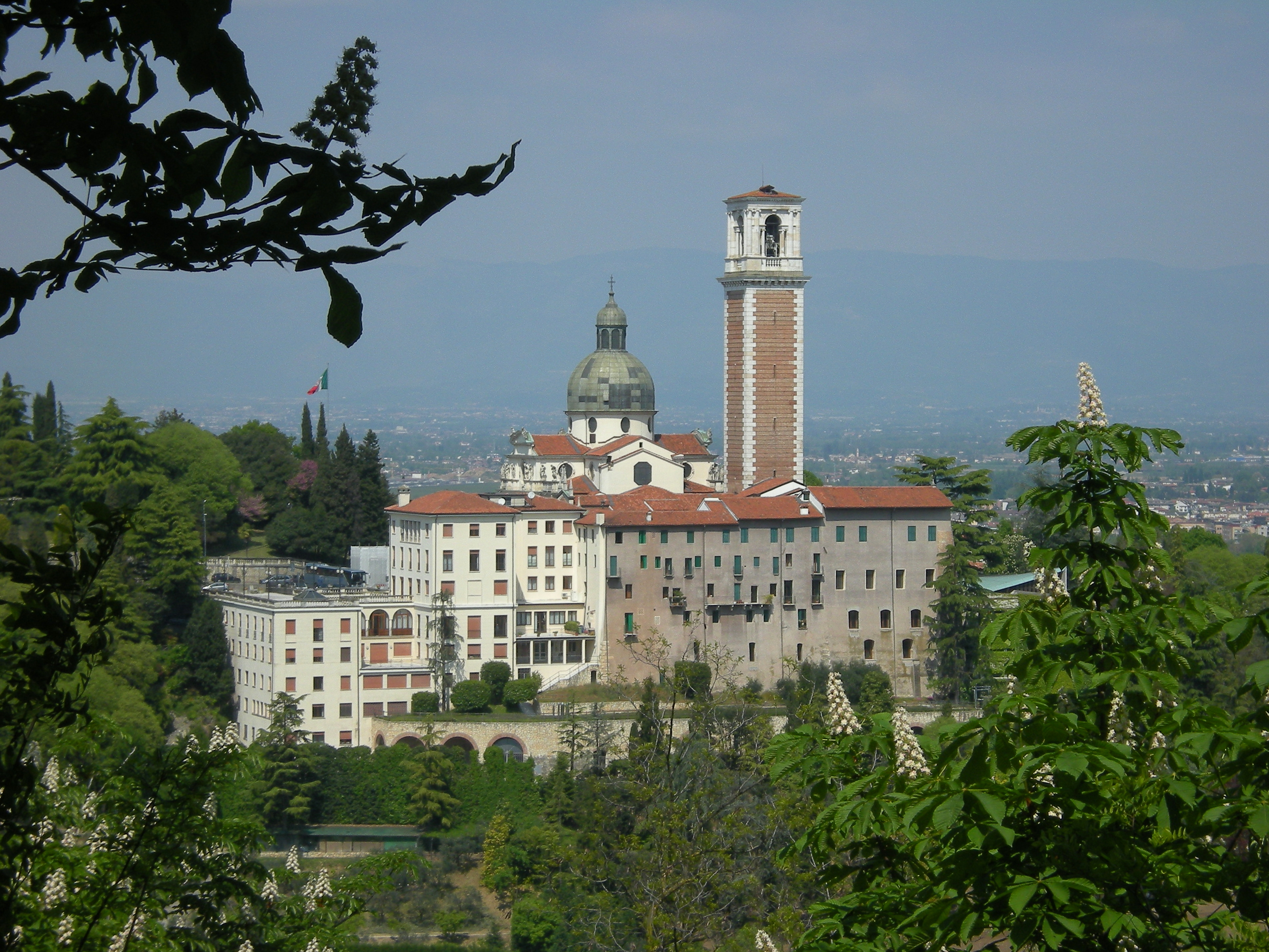 The complex of Basilica of Monte Berico - Vicenza, Italy, seen from the park of the Risorgimento Museum.